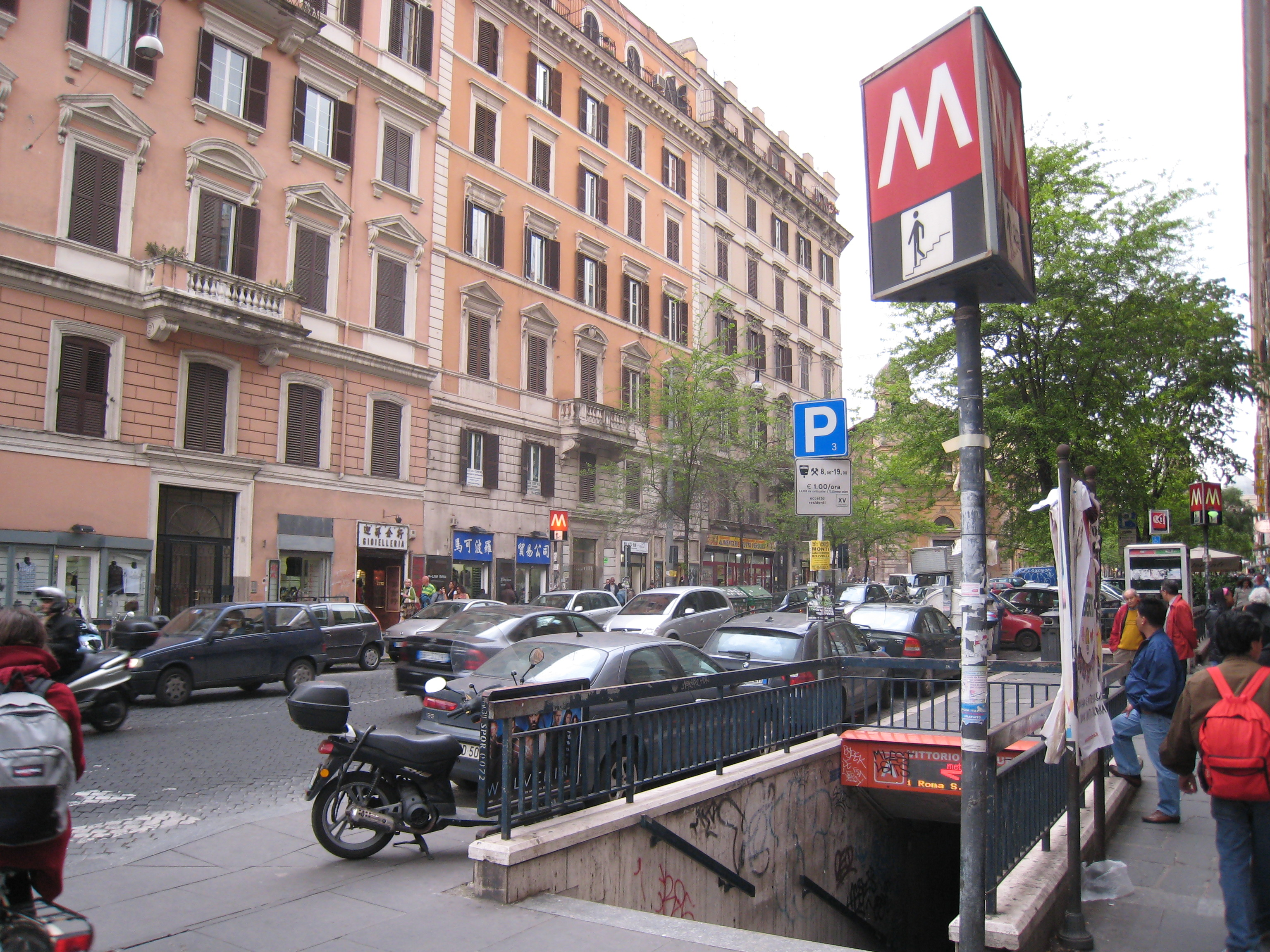 via Carlo Alberto